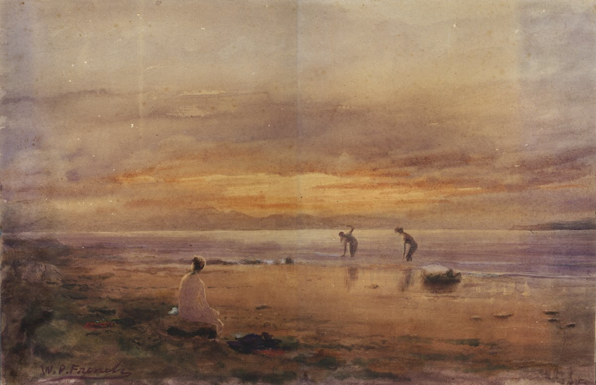 A painting in watercolours by the artist, musician from Ireland Percy French. Being late 19th Century the subject was rather risque at the time! Was origionally gifted to my great grandfather RJ Mecredy by Percy Friench himself. There were other watercolours I remember being in the family but they have long since been distributed to all the family members after my parents died.